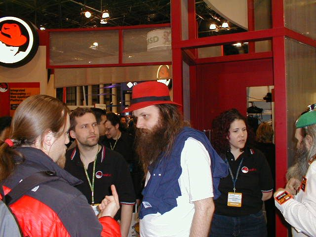 Alan Cox at Linuxworld 2000 in New York City. Photograph by Brian Hankins, February 3 2000 I took this photograph and release the rights to this image for any purpose, by any user, at any time. -BH